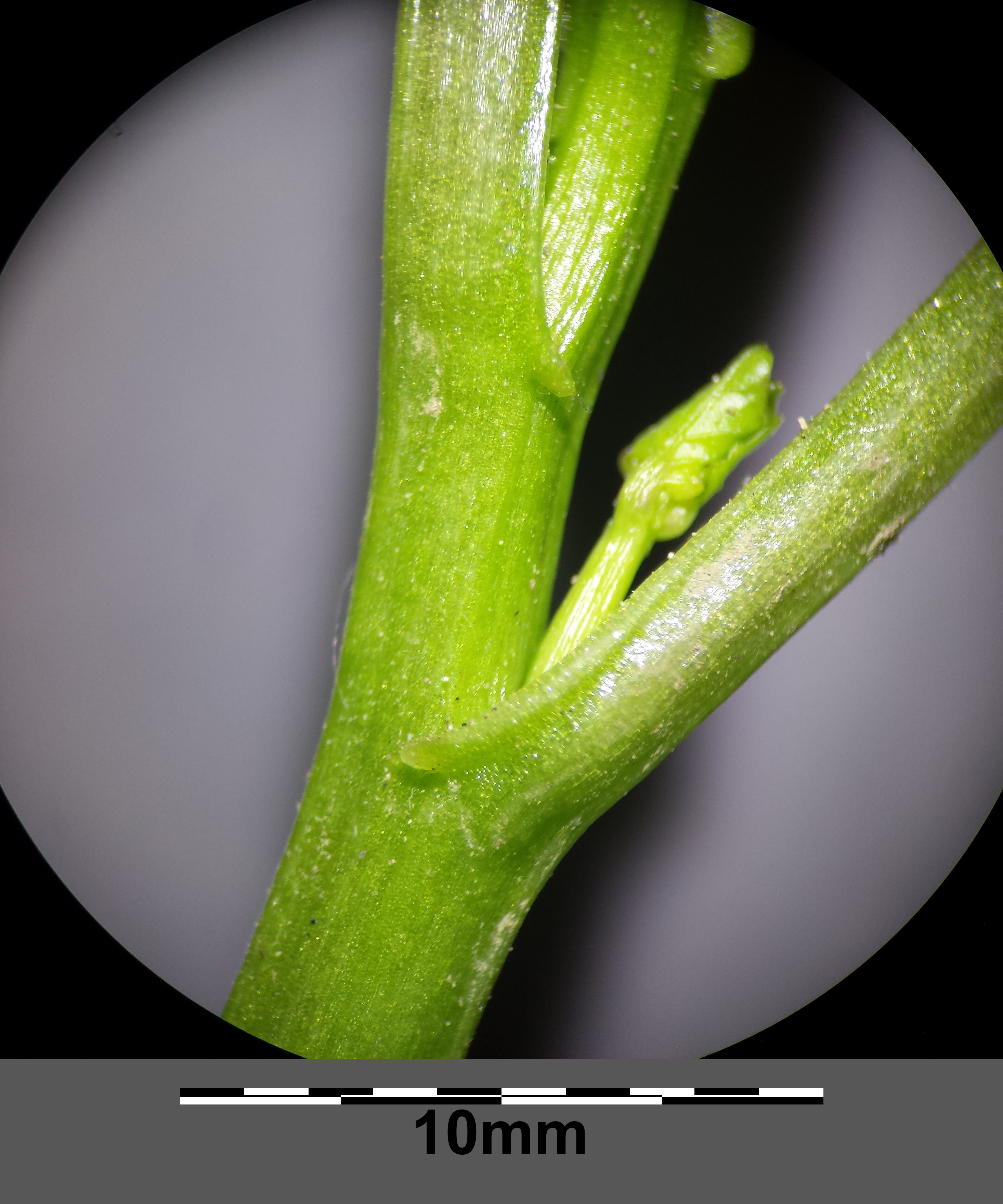 Stem with auriculate leaves Taxonym: Nasturtium officinale ss Fischer et al. EfÖLS 2008 ISBN 978-3-85474-187-9 Location: Senningbach next to Hatzenbach, district Korneuburg, Lower Austria - 180 m a.s.l. Habitat: stream